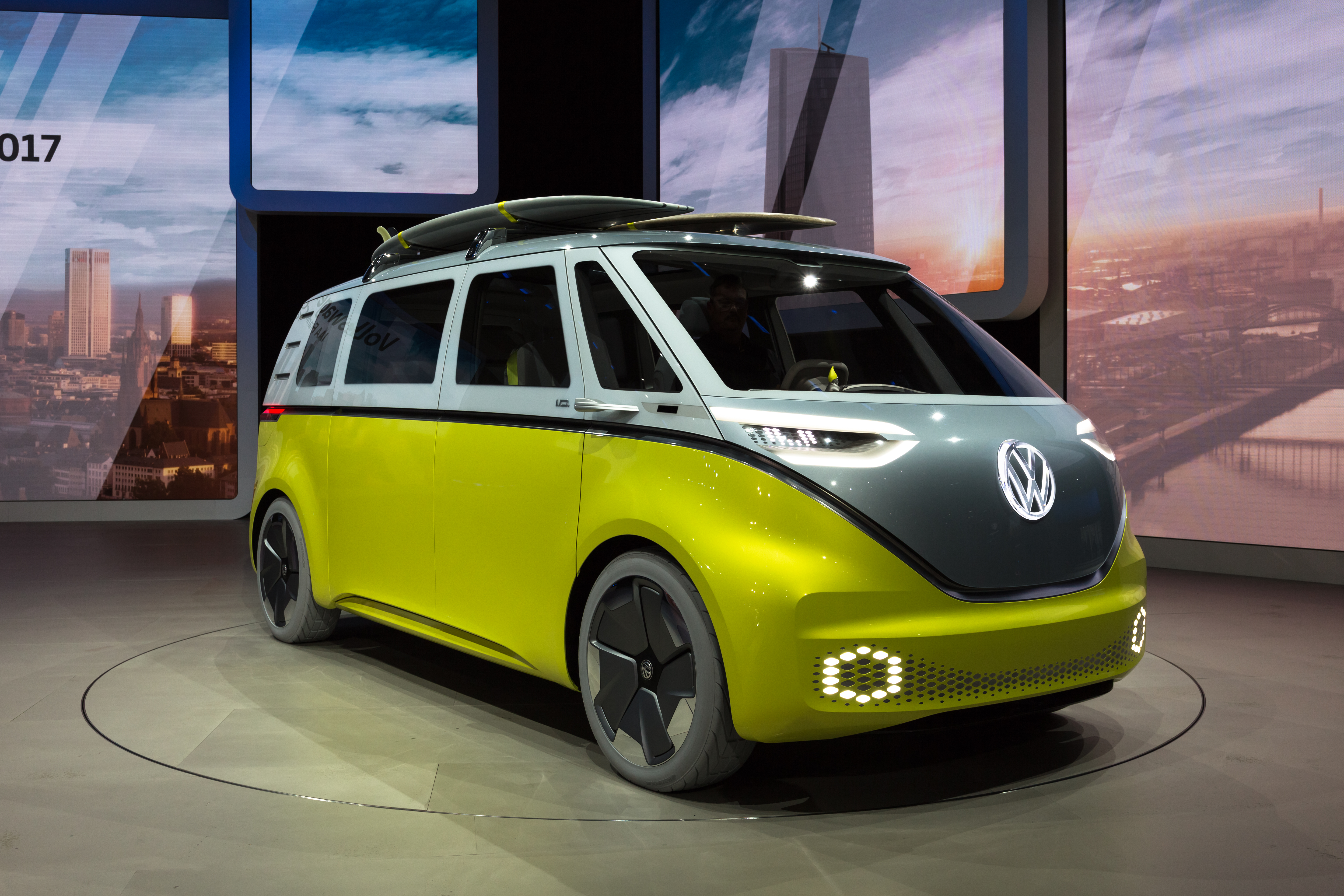 Volkswagen I.D. Buzz at the 2017 Frankfurt Motor Show